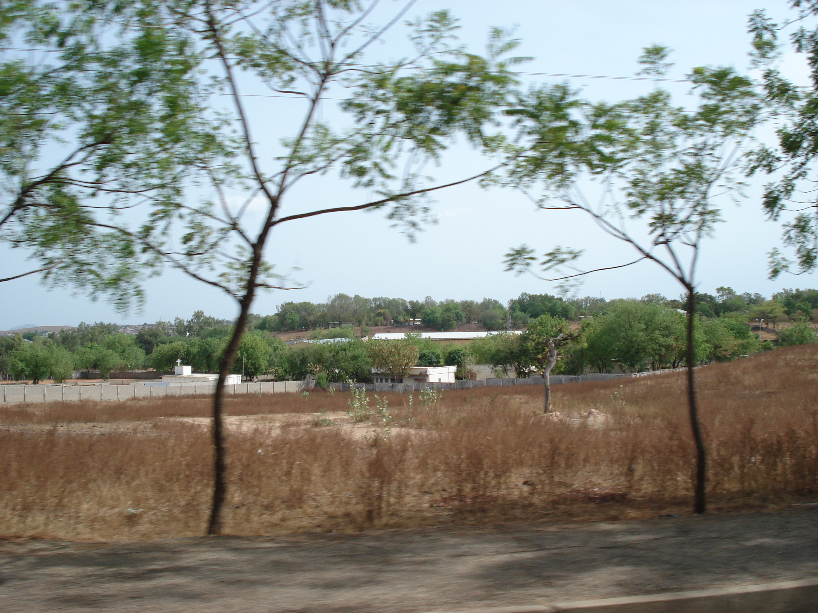 Foulbere, Garoua, Cameroon